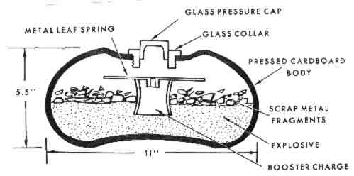 A Czech TQ-Mi anti-tank mine cross section - from the ORDATA database.